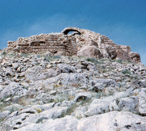 Burj_el_Maleh_panorama